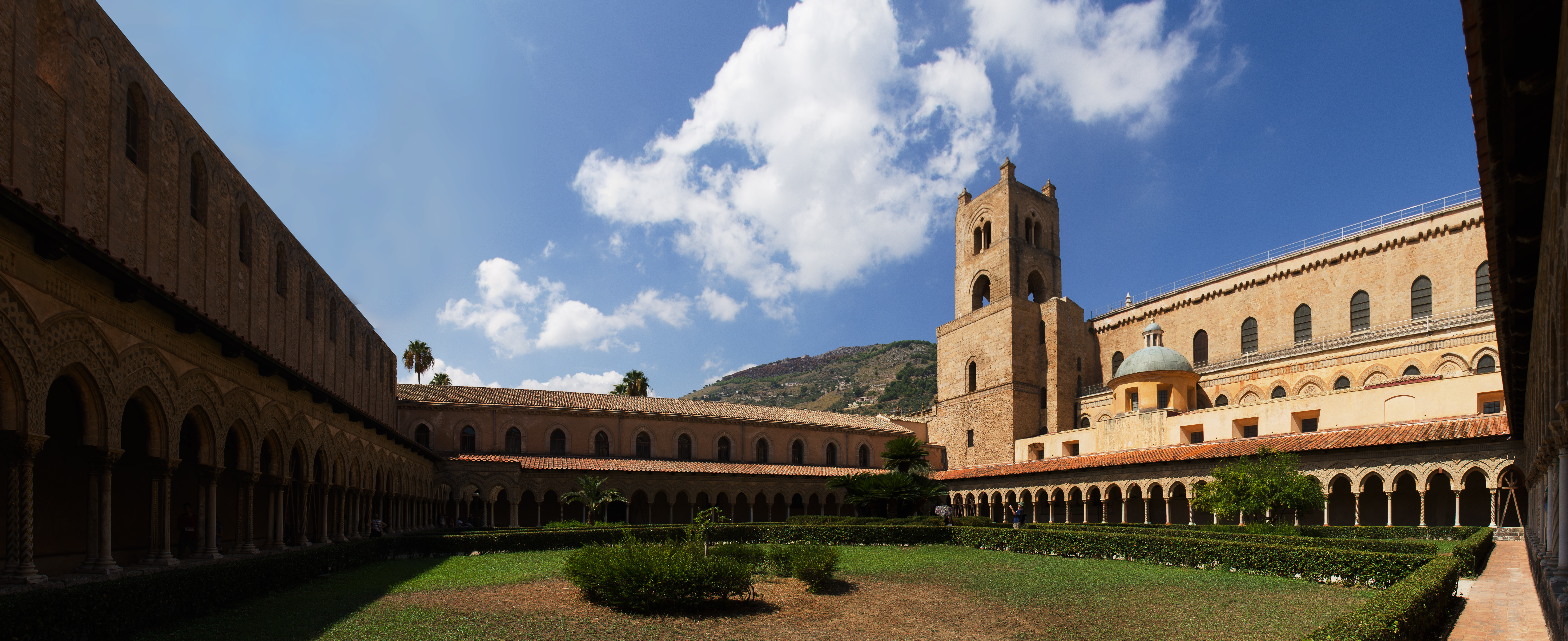 Santa Maria Nuova cathedral and cloister, Monreale, Sicily. Panorama stitched from 5 images.